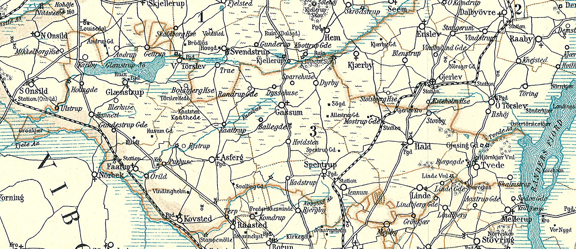 Map of Nørhald Herred i the western part of Randers County in Denmark